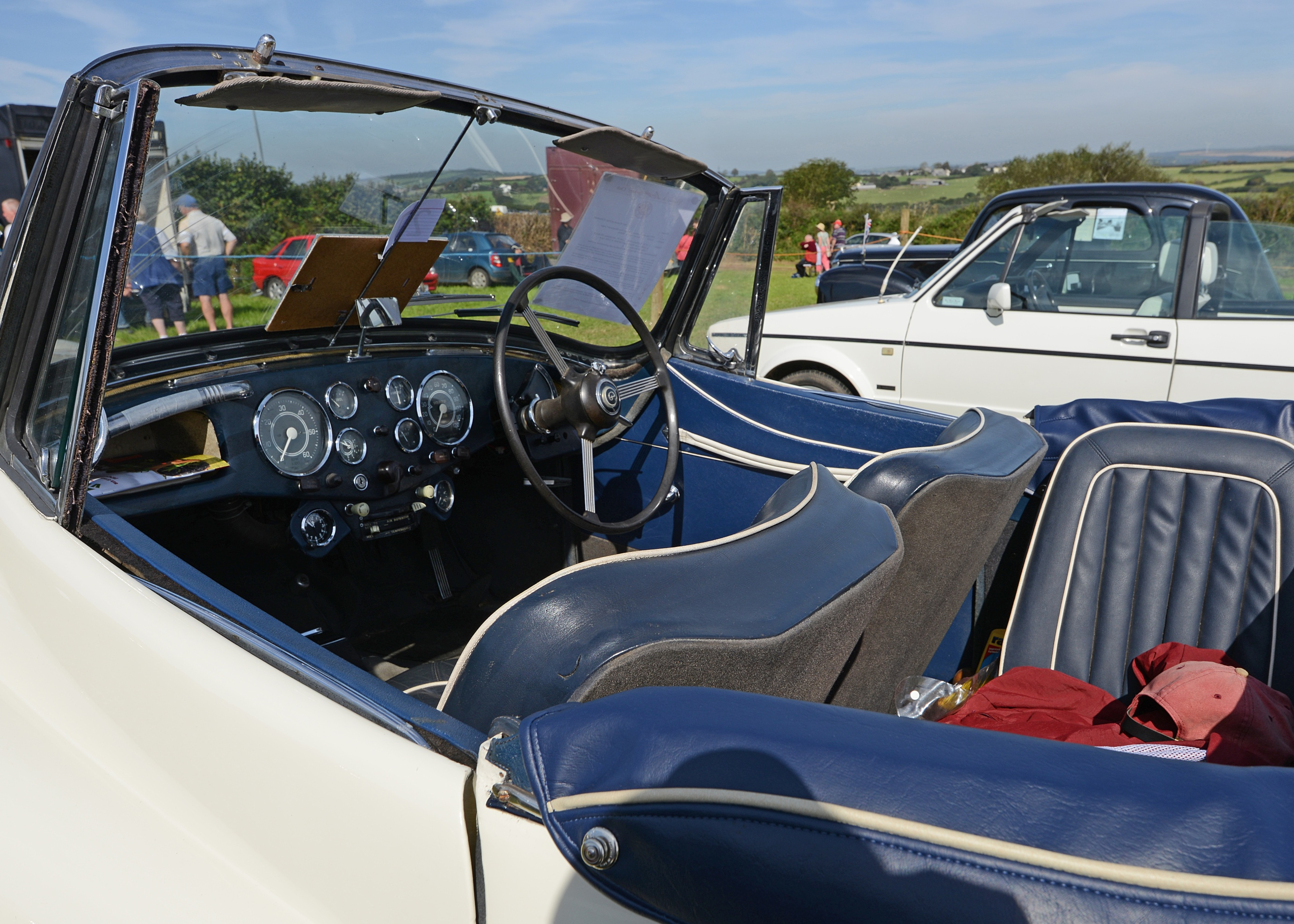 Daimler Conquest 3-seater convertible version of Roadster Sensibly comfortable seating for 3 rather than impossible for 4. I make it 3 time clocks on the dash!!! (DVLA) first registered 13 February 1958, 2433cc